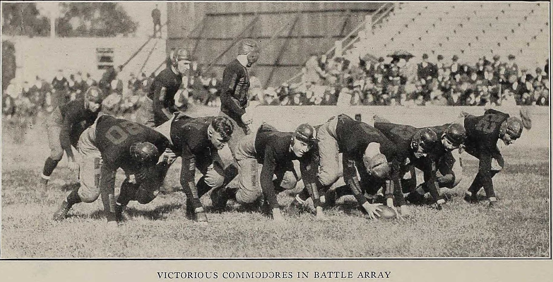 1922 Vanderbilt Commodores football team lined up. Line, left to right: Scotty Neill, Tex Bradford, Tuck Kelly, Alf Sharpe, Garland Morrow, perhaps Jim Walker, Tot McCullough. Backfield, front to back: Perhaps Doc Kuhn, Jess Neely, perhaps Gil Reese.